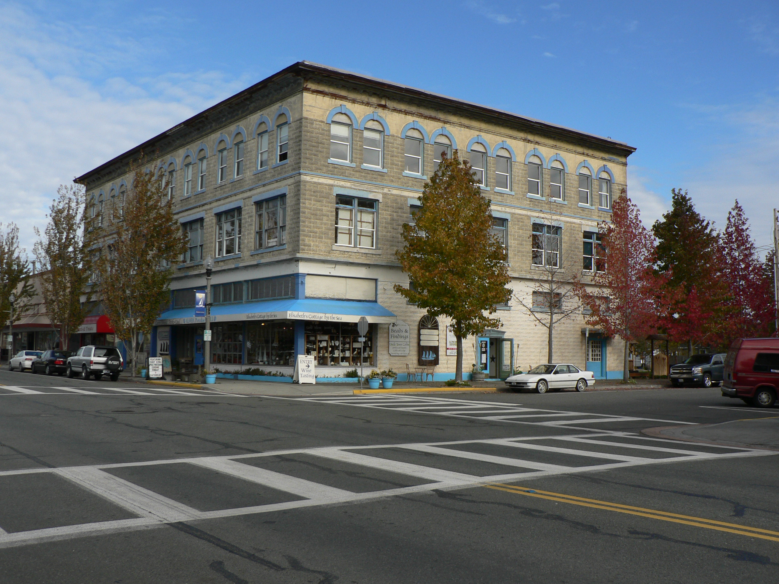 Keystone Hotel/Moyer Building, 619 Commercial Avenue, Anacortes, Washington